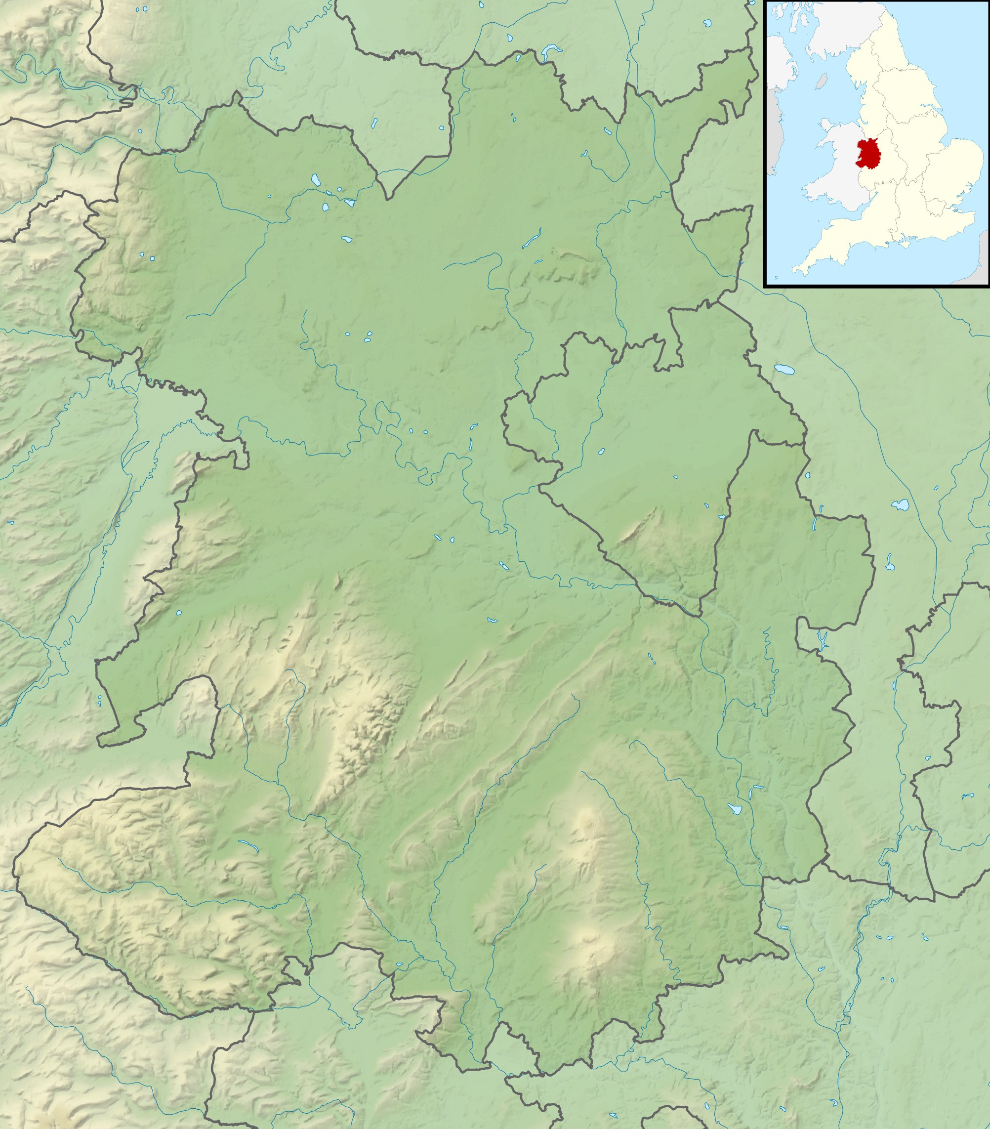 Relief map of Shropshire, UK. Equirectangular map projection on WGS 84 datum, with N/S stretched 165% Geographic limits: West: 3.25W East: 2.15W North: 53.03N South: 52.27N